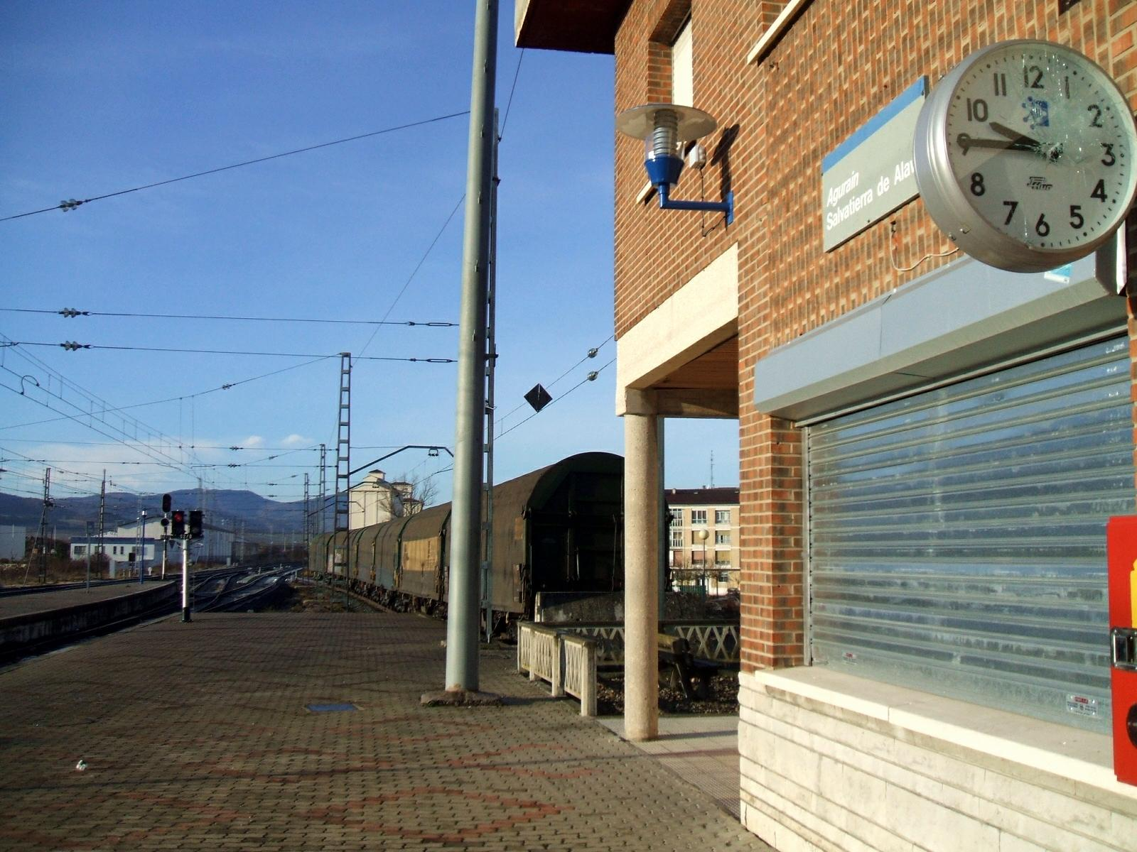 Estación de tren de Salvatierra-Agurain (Álava, País Vasco, España)